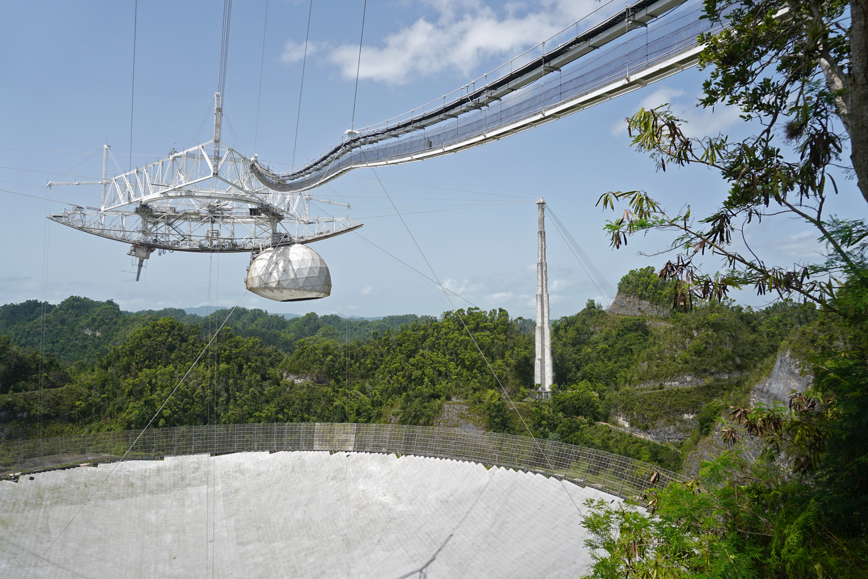 Arecibo radio telescope and Western support tower in the background (right). Arecibo Observatory, Puerto Rico